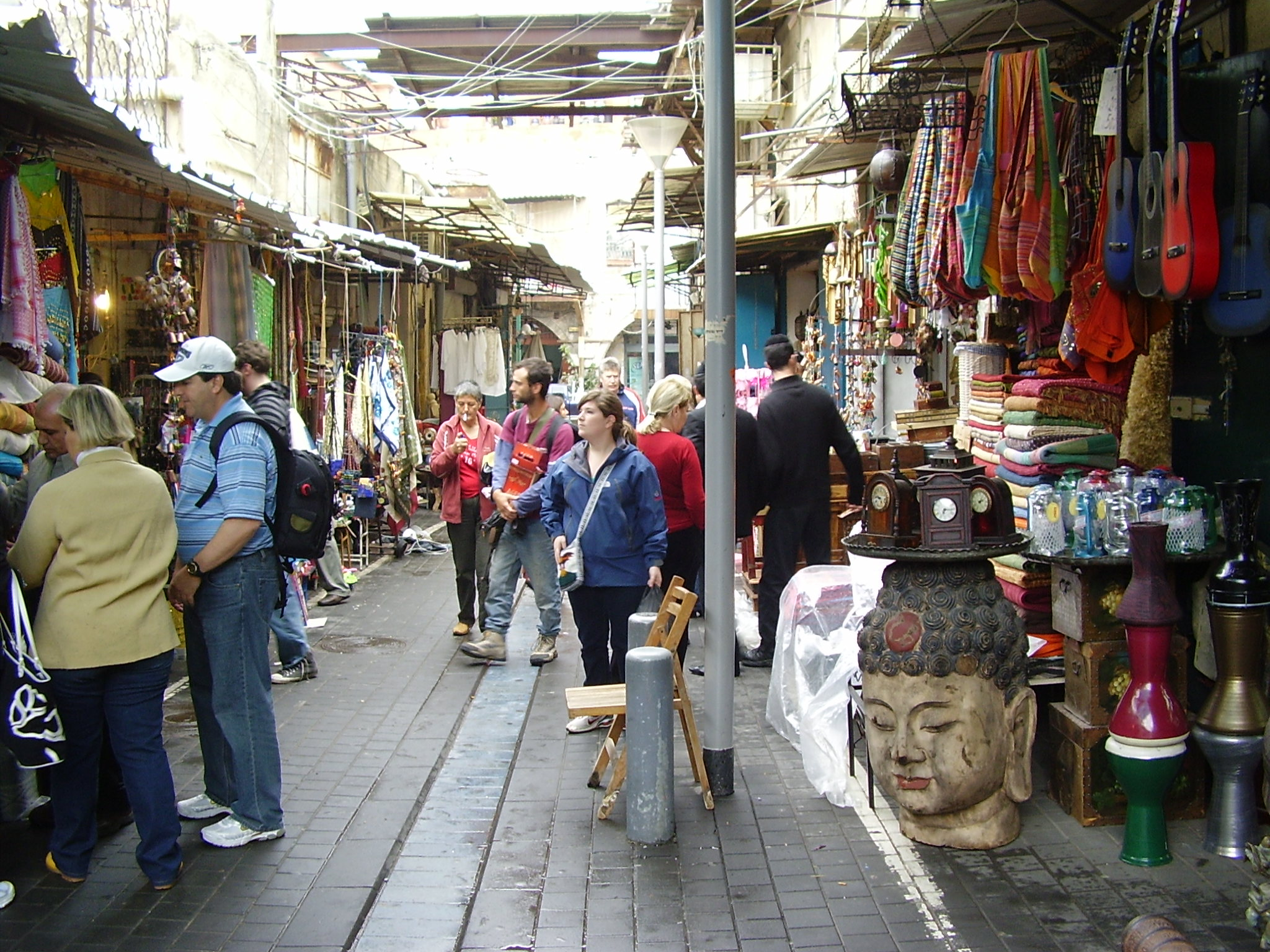 flea market in jaffa שוק הפשפשים ביפו